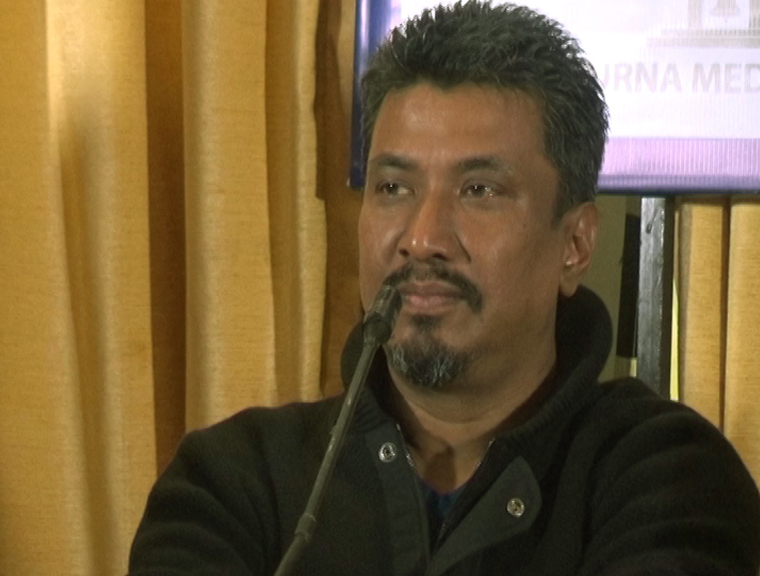 नेपाली: Singer Nhyoo Bajracharya